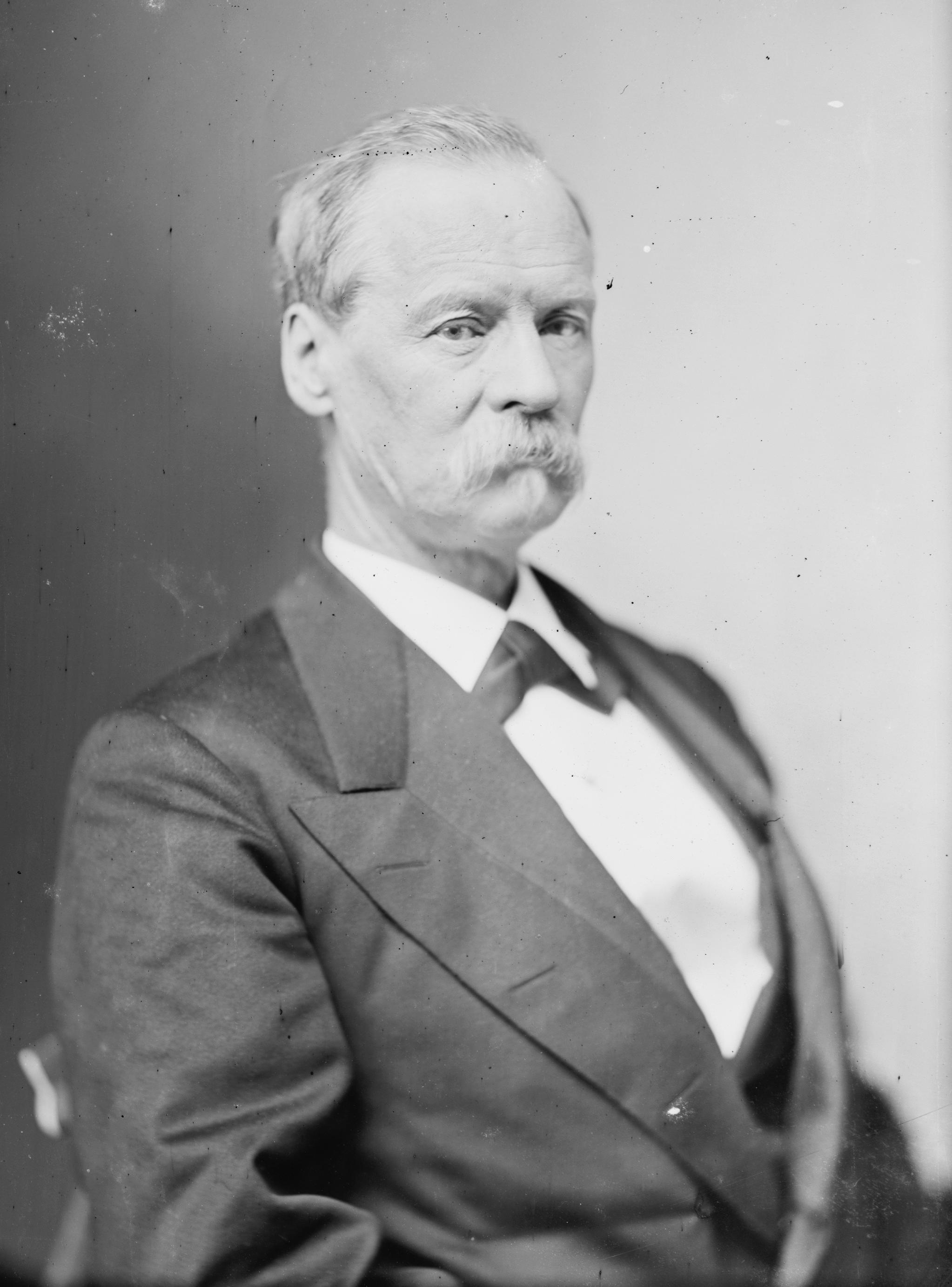 William Sharon. Library of Congress description: "Sharon Hon. Wm. Of Nevada".